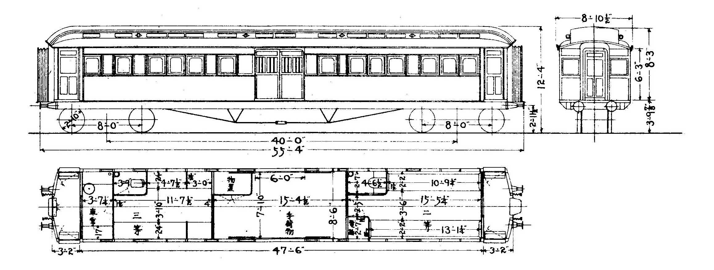 Type drawing of JGR's Horohani5995 type passenger car (Gubusha Nos.235, 236)